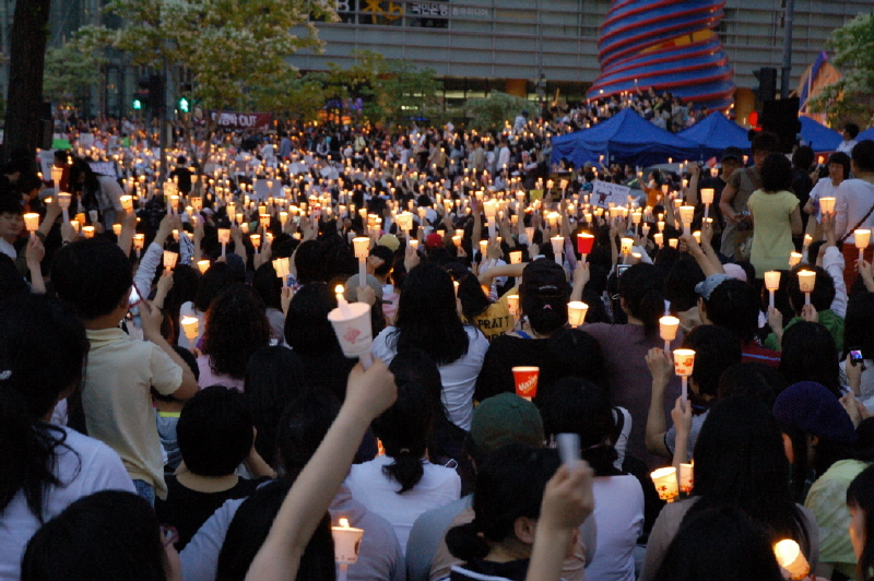 Picture of South Korea's Protest Against Importing American Beef in Cheonggyecheon area, on May 3, 2008